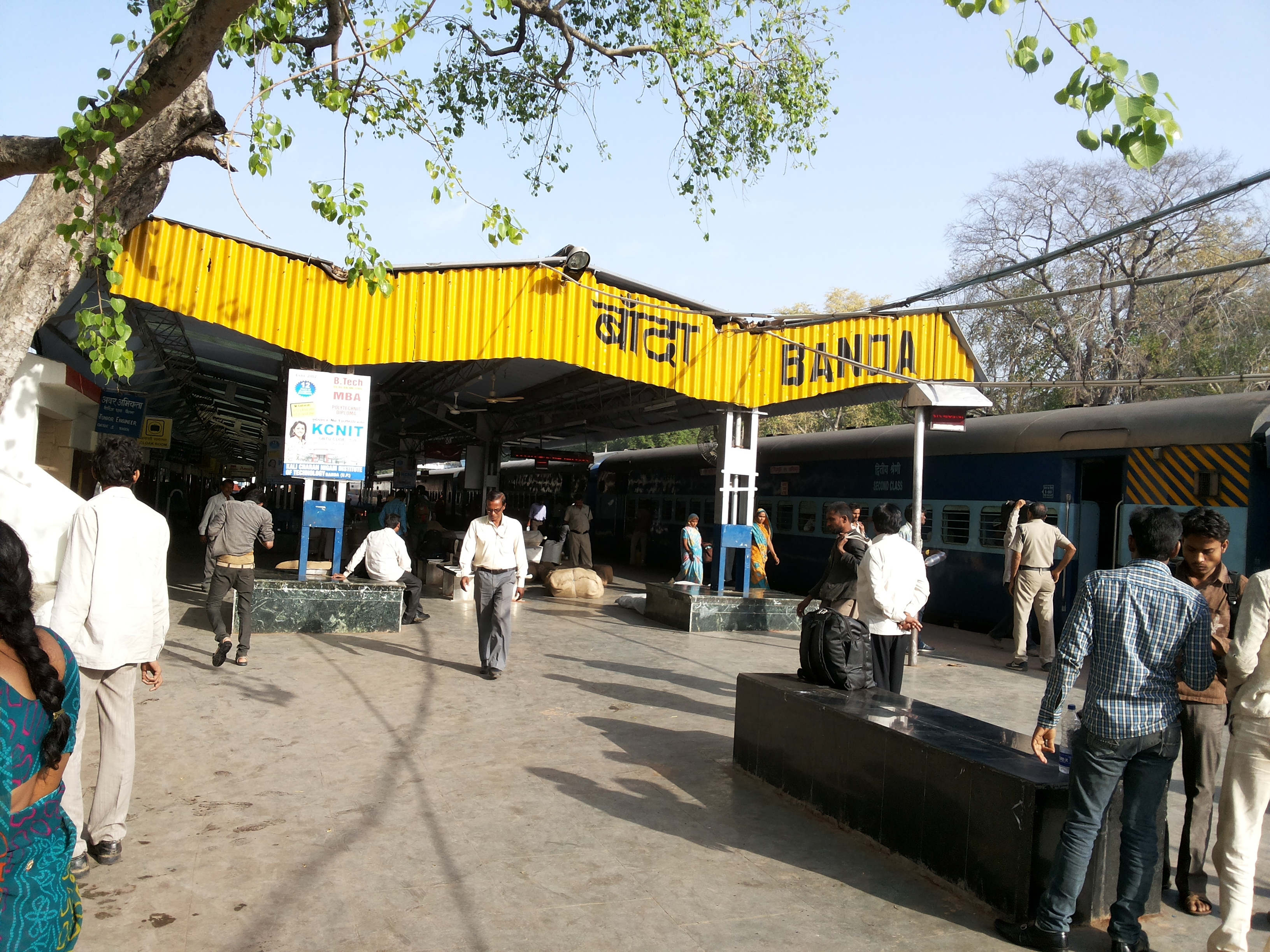 The picture is of Banda city railway station in Uttar Pradesh.